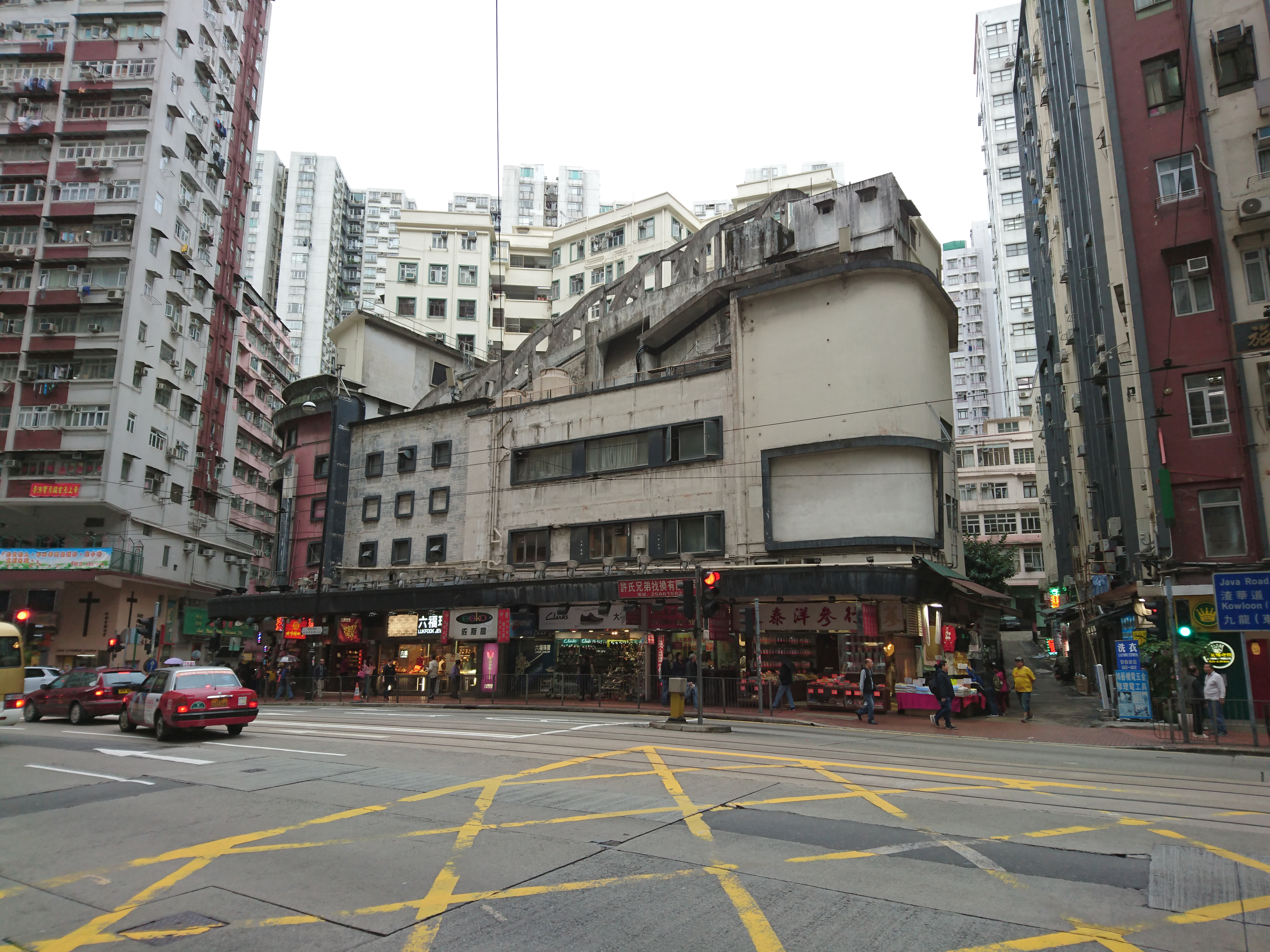 State Theatre Building King's Road Side